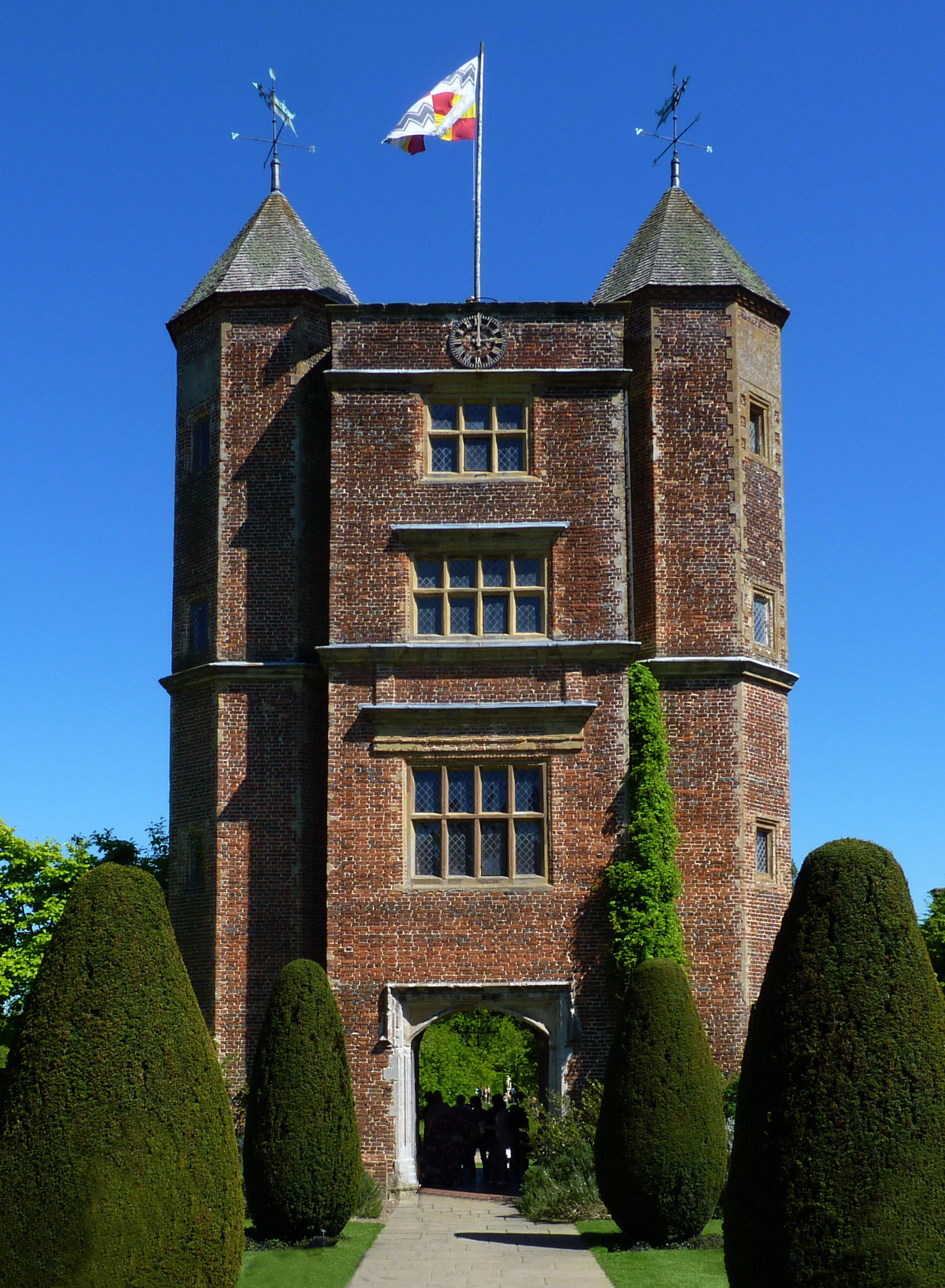 Vita Sackville-West's tower at Sissinghurst Castle